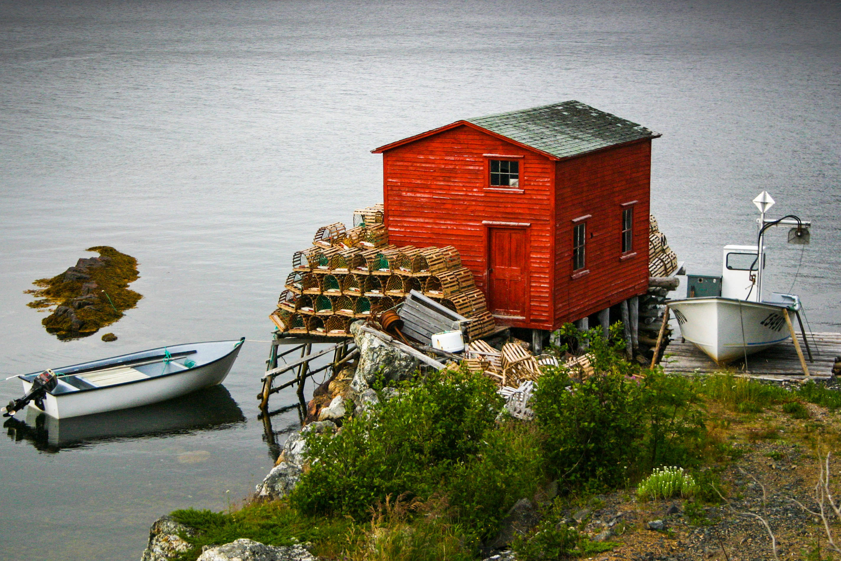 Getting ready for lobster season